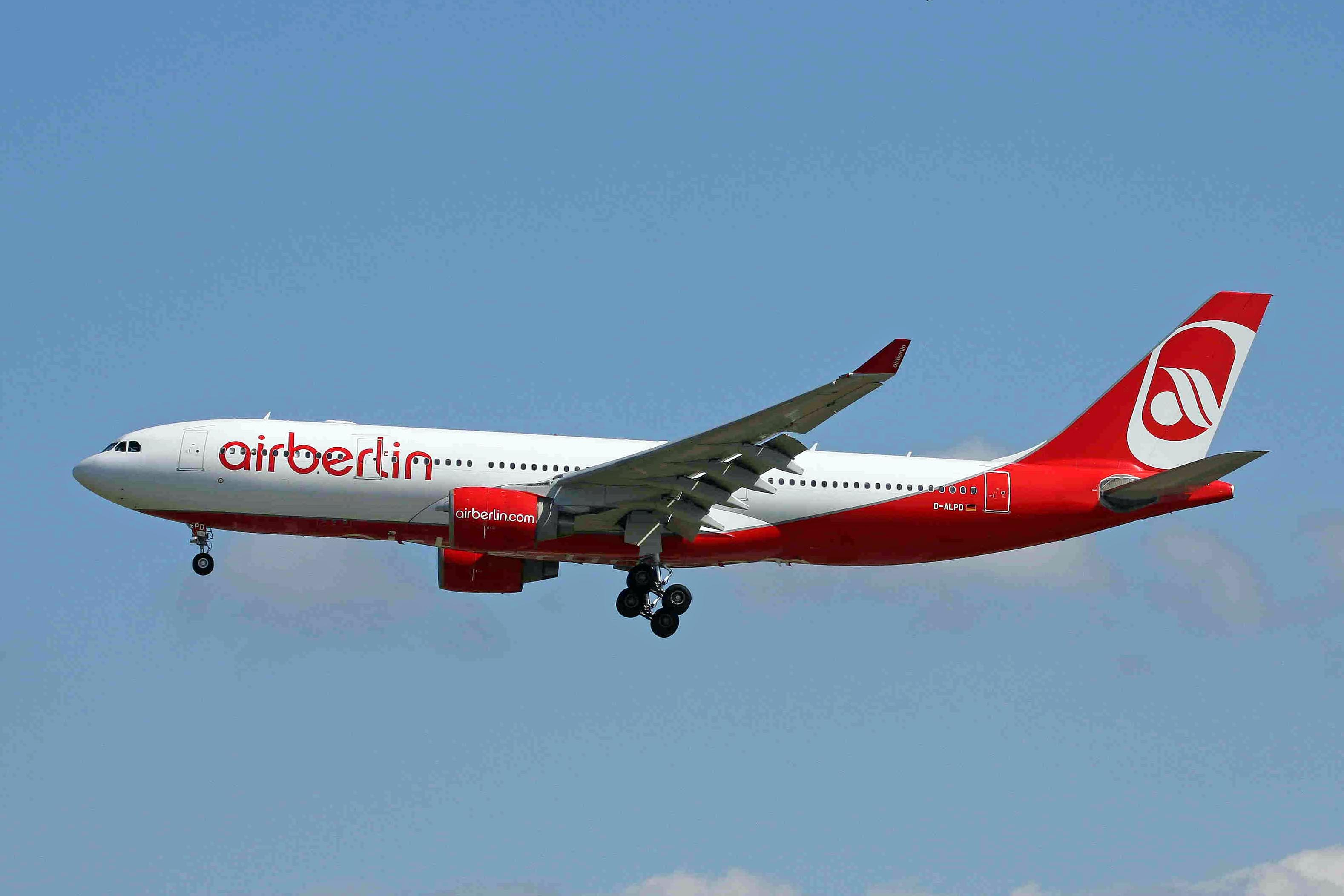 I travelled all the way to Vancouver (YVR) and end up seeing Air Berlin & Thos Cook A330's .... ;o(